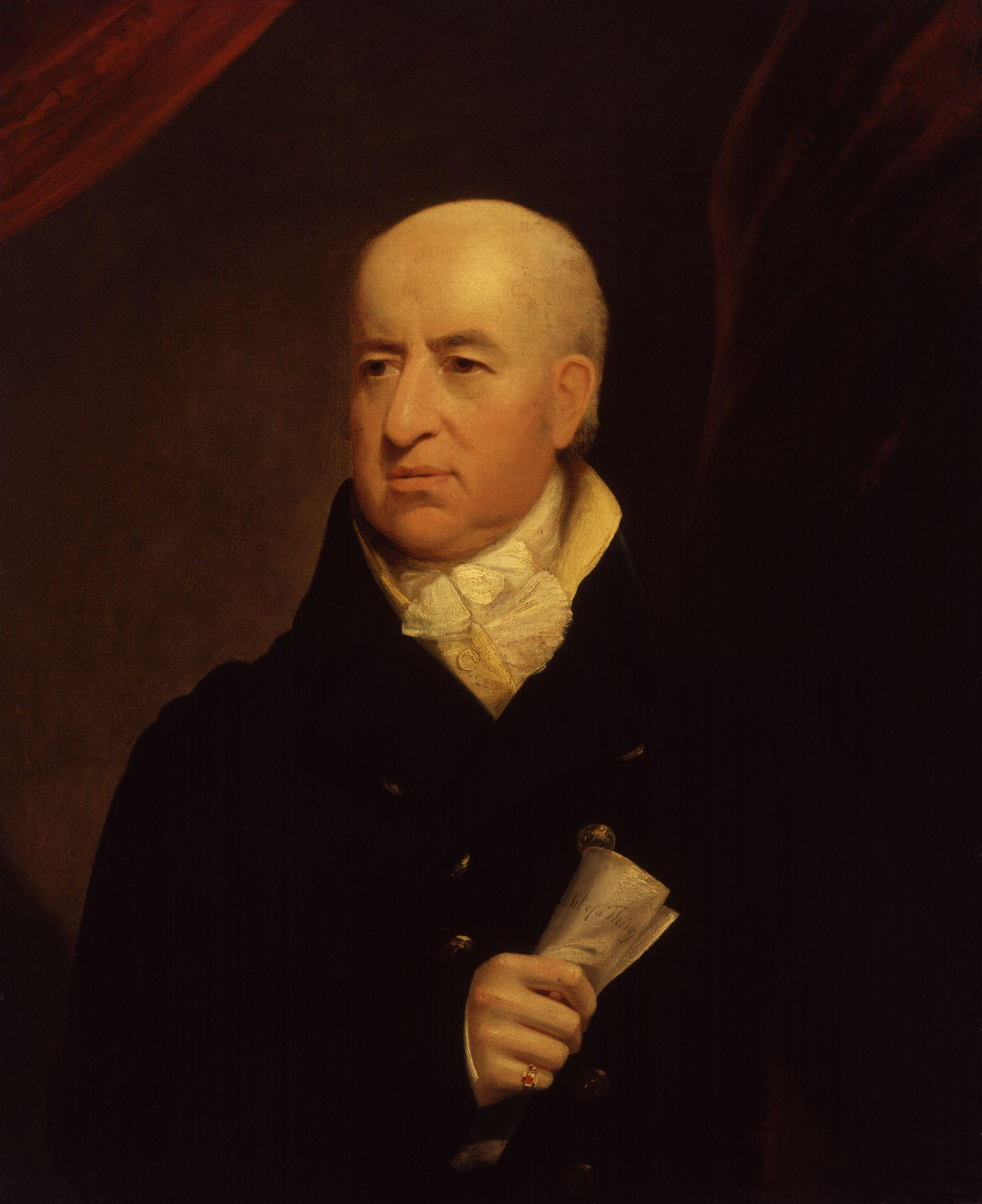 Charles Morris, by James Lonsdale (died 1839), given to the National Portrait Gallery, London in . All images in this batch have been confirmed as author died before 1939 according to the official death date listed by the NPG.